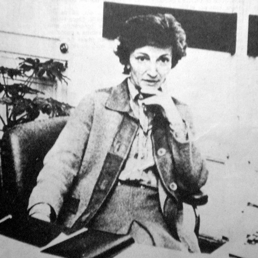 Helena Holmberg - Argentinian assasinated diplomat